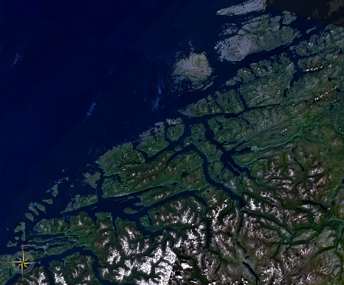 Satellite imagery of the fjord system of Nordmøre (top) and Romsdalsfjorden (bottom). The islands that can be seen fully are Hitra (larger, northern) and Smøla.